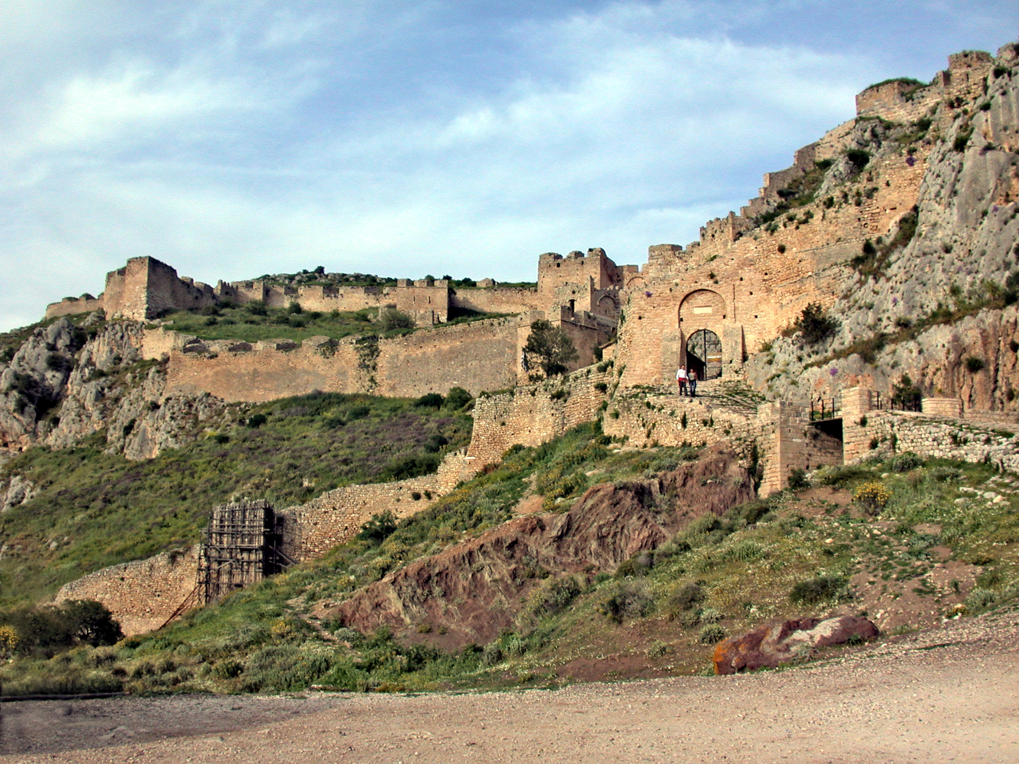 Castle of Acrocorinth